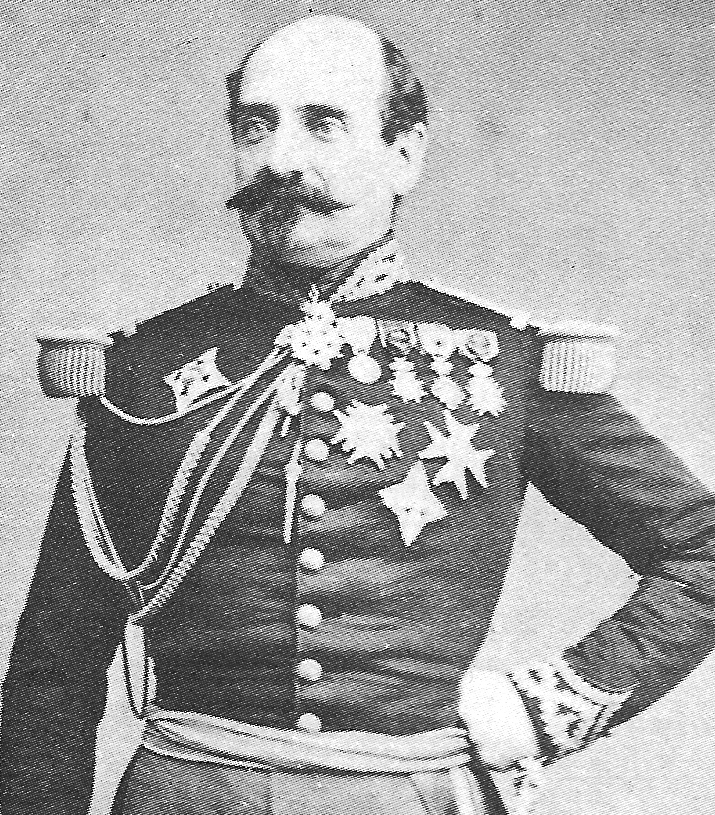 French general Henri-Pierre Castelnau (1814-1890), aide-de-camp to Napoleon III.